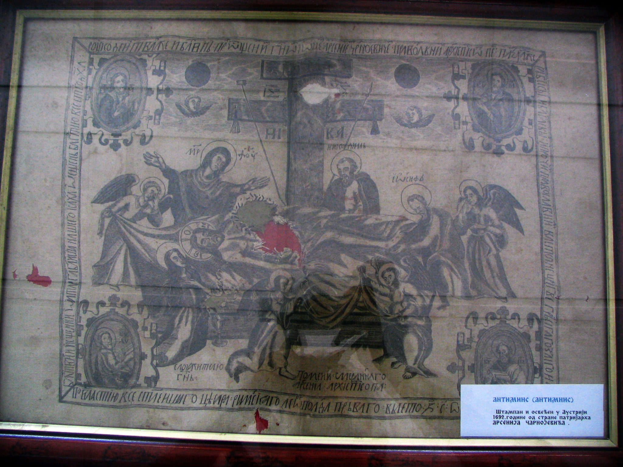 Antiminis 1692, Rača monastery